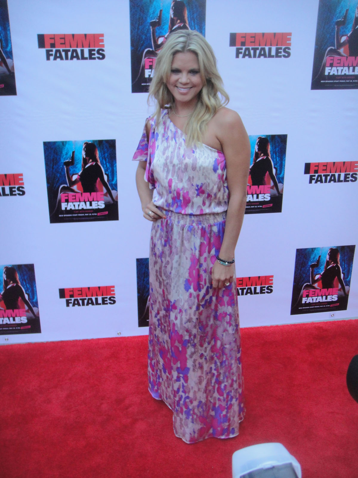 Femme Fatales Red Carpet